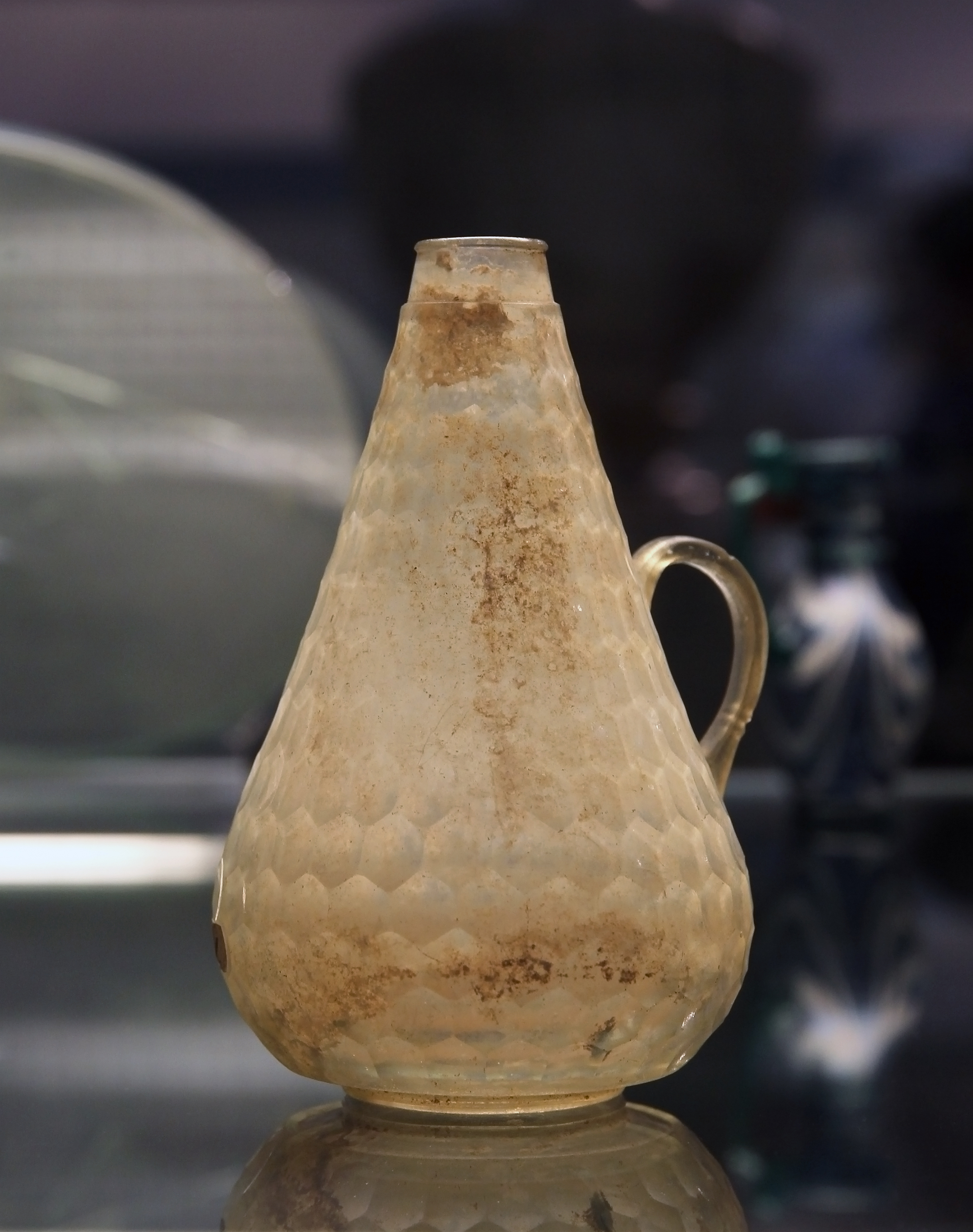 Blown glass jug with facet-cut decoration, among the first examples of Ancient Roman colourless glass. Probably made in Italy, 70-120 AD. Room 70, British Museum, GR 1856.12-26.1203.